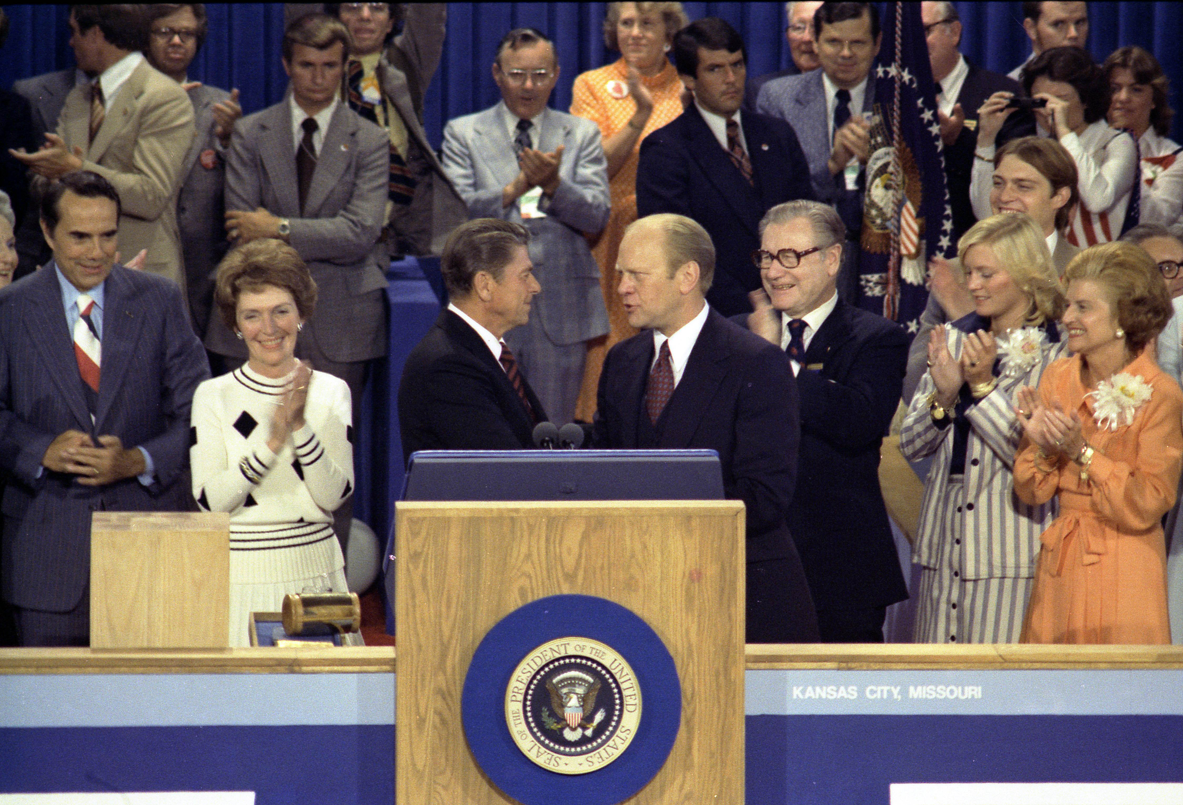 President Gerald Ford, as the Republican nominee, shakes hands with nomination foe Ronald Reagan on the closing night of the 1976 Republican National Convention. Vice-Presidential Candidate Bob Dole is on the far left, then Nancy Reagan, Governor Ronald Reagan is at the center shaking hands with President Gerald Ford, Vice-President Nelson Rockefeller is just to the right of Ford, followed by Susan Ford and First Lady Betty Ford.